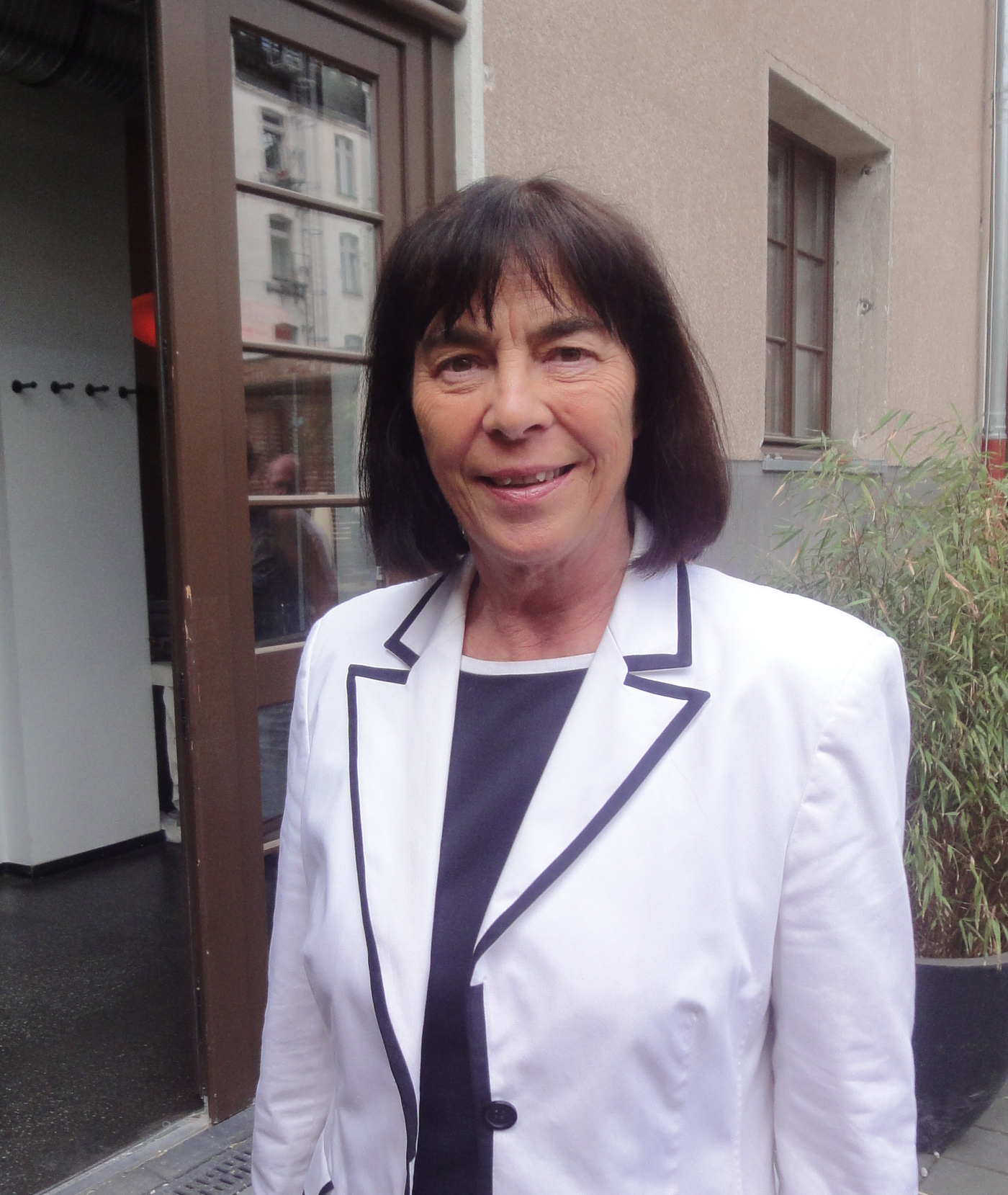 politician and jurist